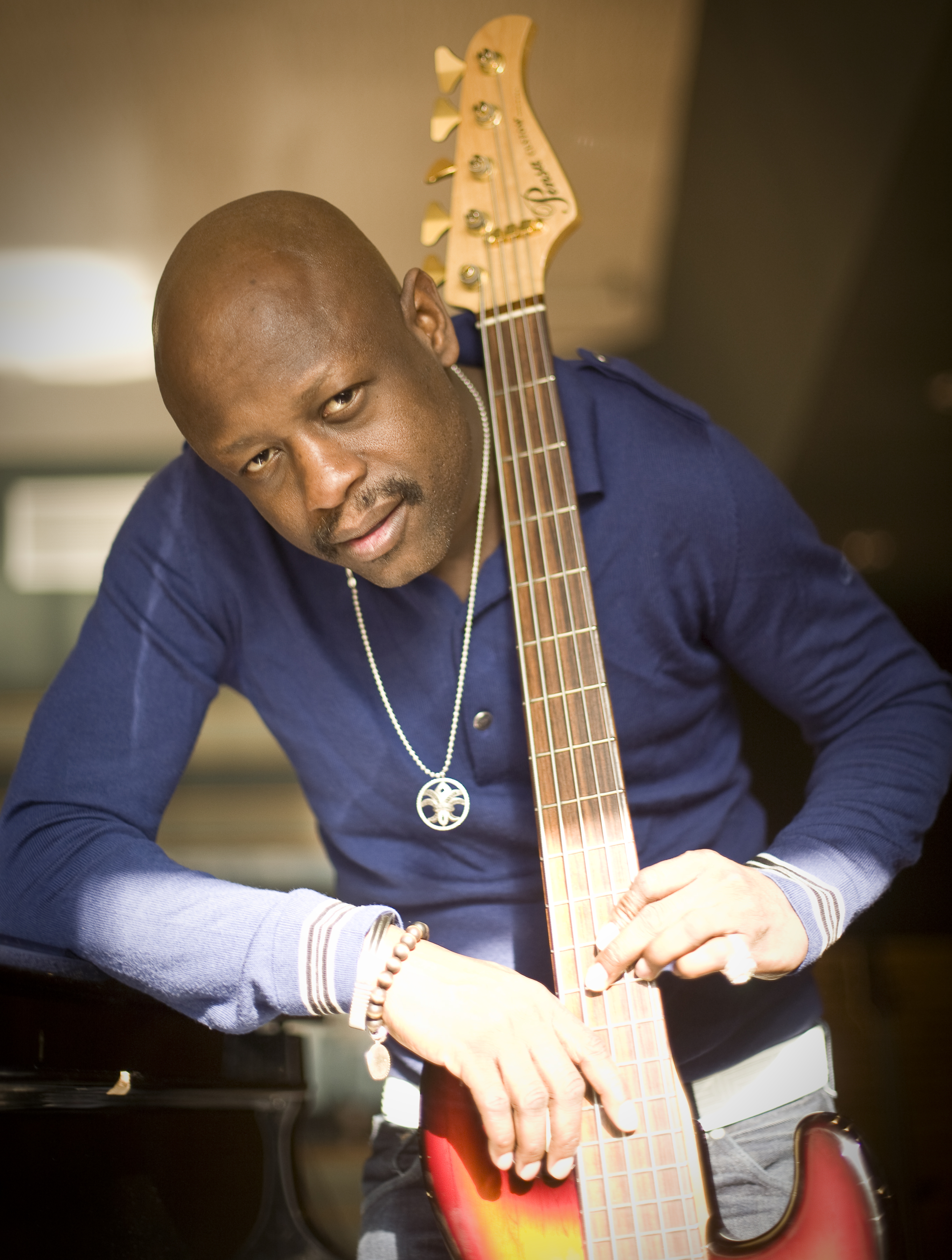 Grammy award-winning super producer Jerry "Wonda" Duplessis.